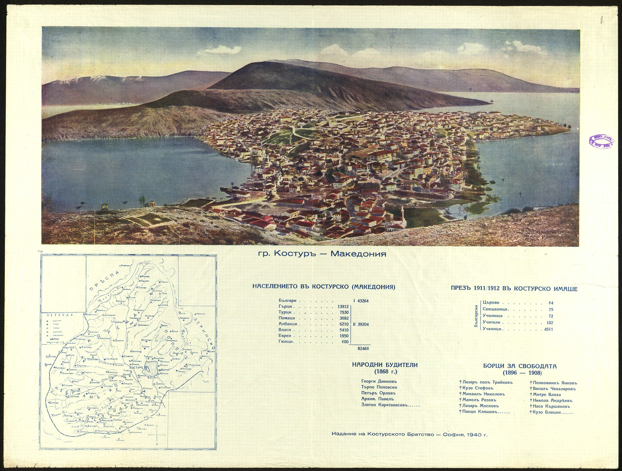 Kostur city and info image